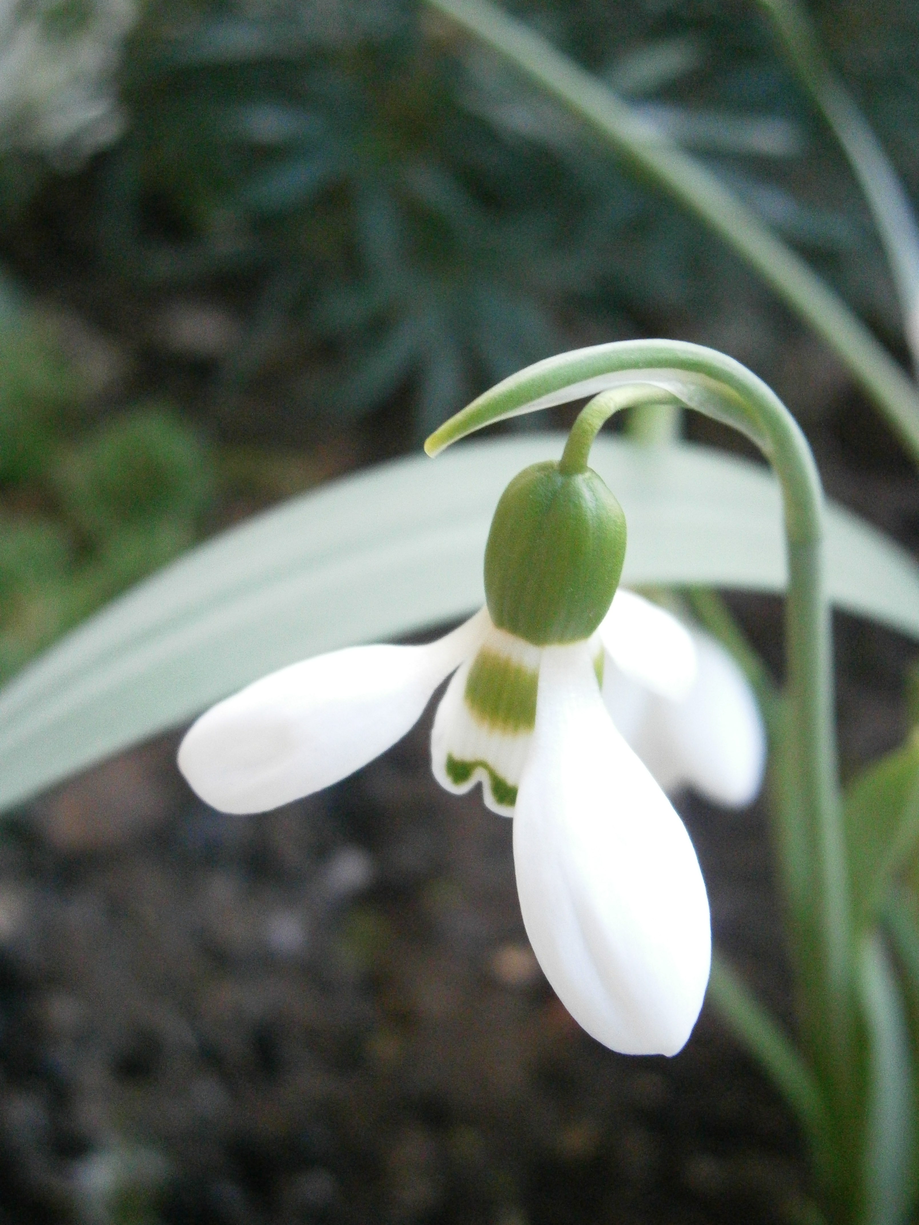 Galanthus elwesii close-up